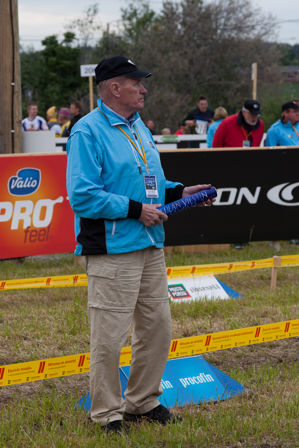 Competition Manager Veikko Kostiainen at Valio-Jukola